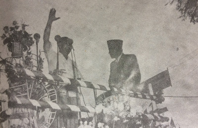 Arnold Mononutu with Sukarno in Purwodadi on 15 September 1952